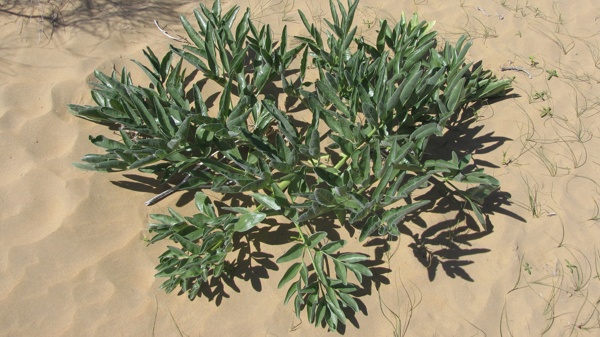 Ferula assa-foetida near the fortress of Ayaz Kala in the republic of Karakalpakstan and the Kyzyl Kum desert in Uzbekistan.